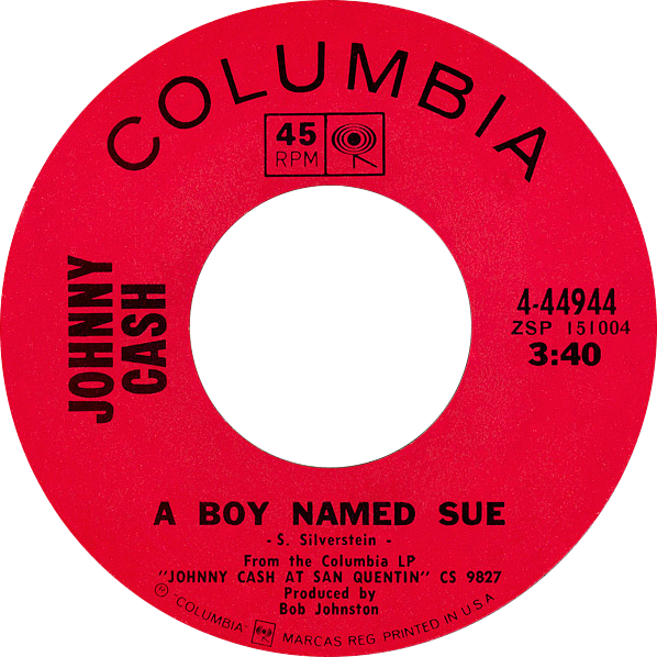 Side-A label of the 1969 US vinyl single release of "A Boy Named Sue" by Johnny Cash